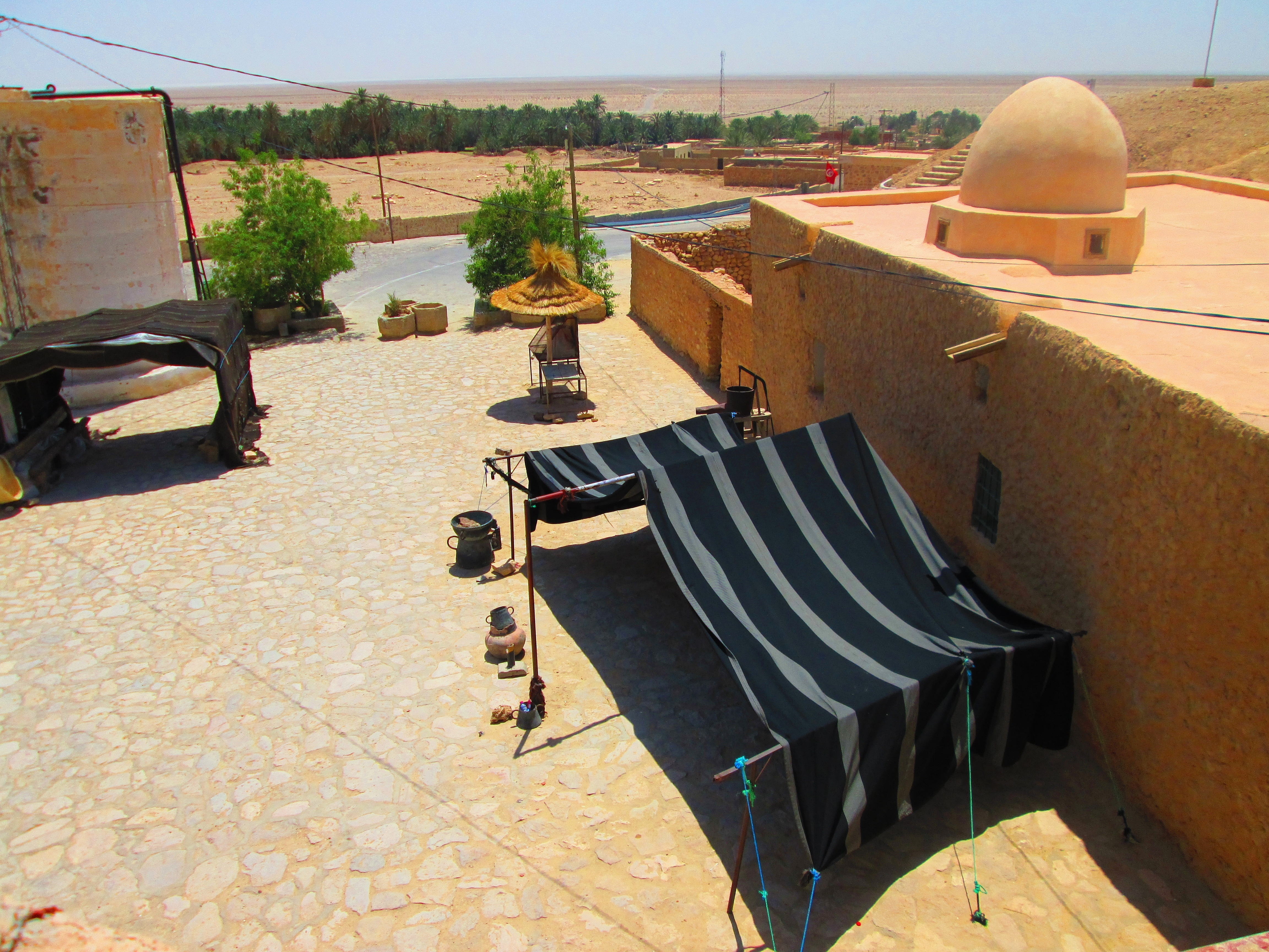 Tunisian architecture in Chebika, Tunisia